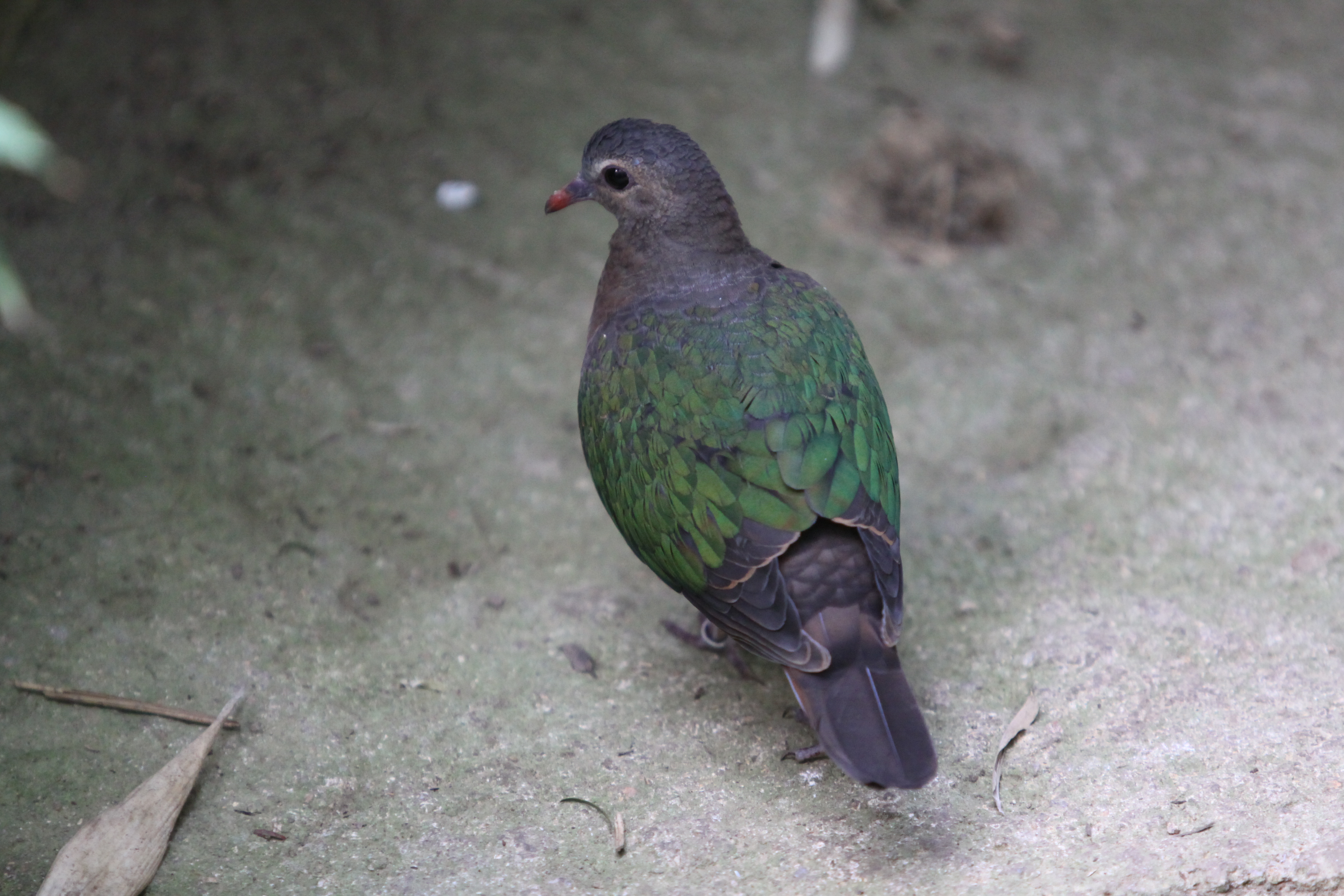 common emerald dove (Chalcophaps indica) at Durrell Wildlife Park